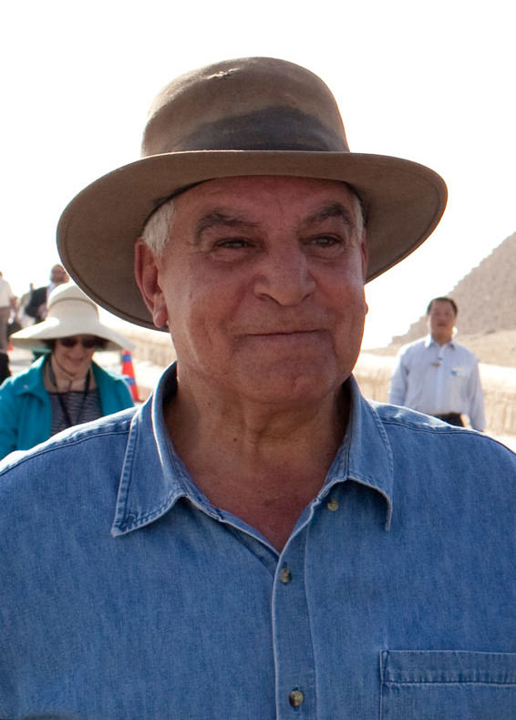 President Barack Obama tours the Pyramids and Sphinx with Secretary General of the Egyptian Supreme Council of Antiquities, Zahi Hawass (left), Senior Advisor David Axelrod and Chief of Staff Rahm Emanuel (right), June 4, 2009. (Official White House photo by Pete Souza) This official White House photograph is in the public domain from a copyright perspective, so while restrictions such as personality or privacy rights may apply, in general, manipulations are allowed.